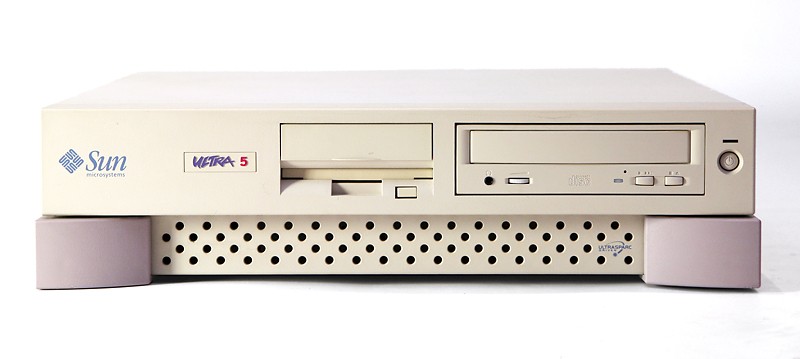 Sun Ultra 5 Workstation. Front view.